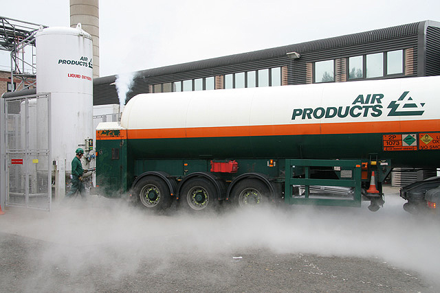 Topping up the liquid oxygen tanks at the Borders General Hospital